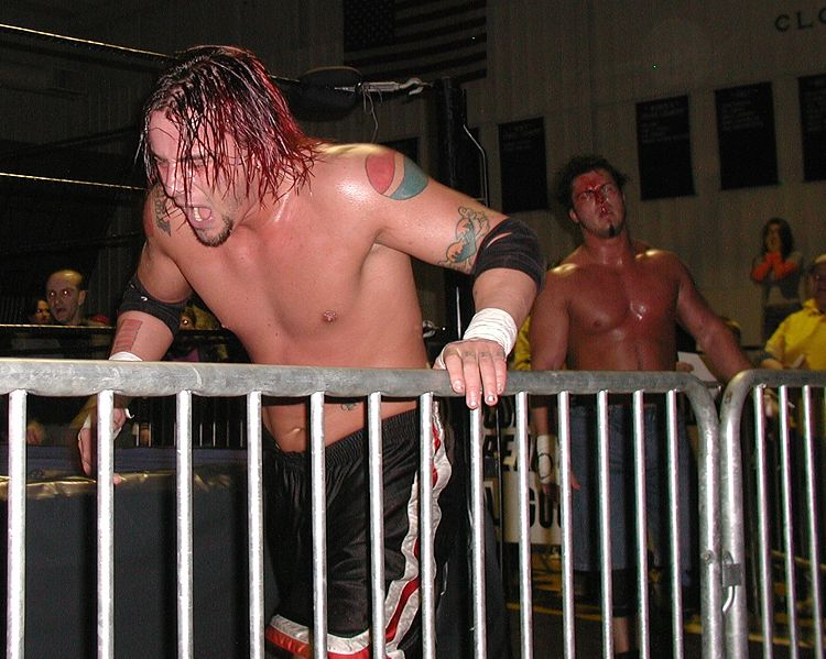 CM Punk (foreground) in a match against Danny Dominion (background) at an NWA Midwest independent wrestling show on November 23en:2002 in Grayslake, IL.